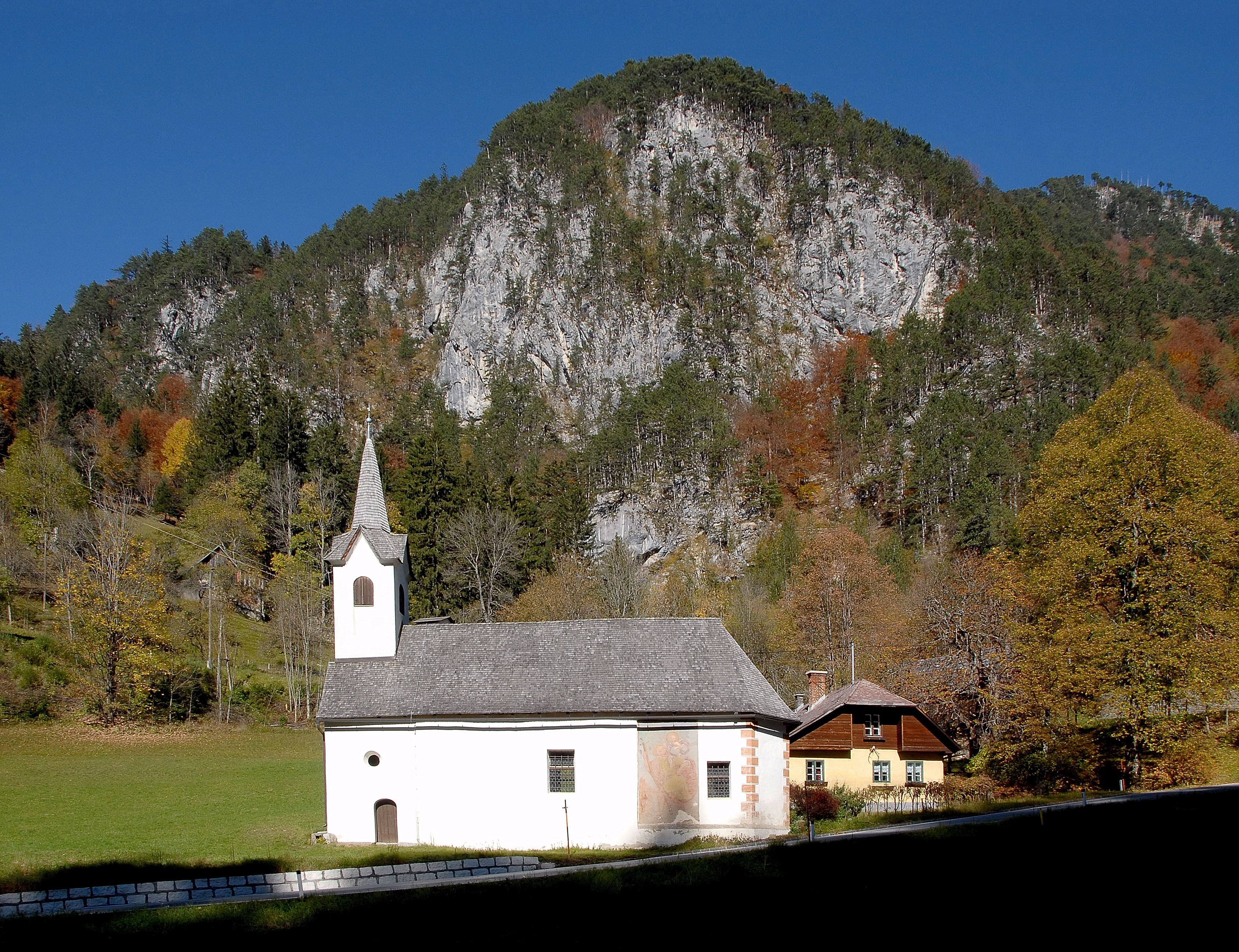 Subsidiary church Saint Magdalene at Sapotnica on the Loiblpass road, Loibltal, municipality Ferlach, district Klagenfurt Land, Carinthia, Austria, EU